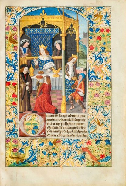 Page from Life of St. Radegund, illuminated by the Master of St. Radegund, 1496-98, 260 x 180 mm, vellum